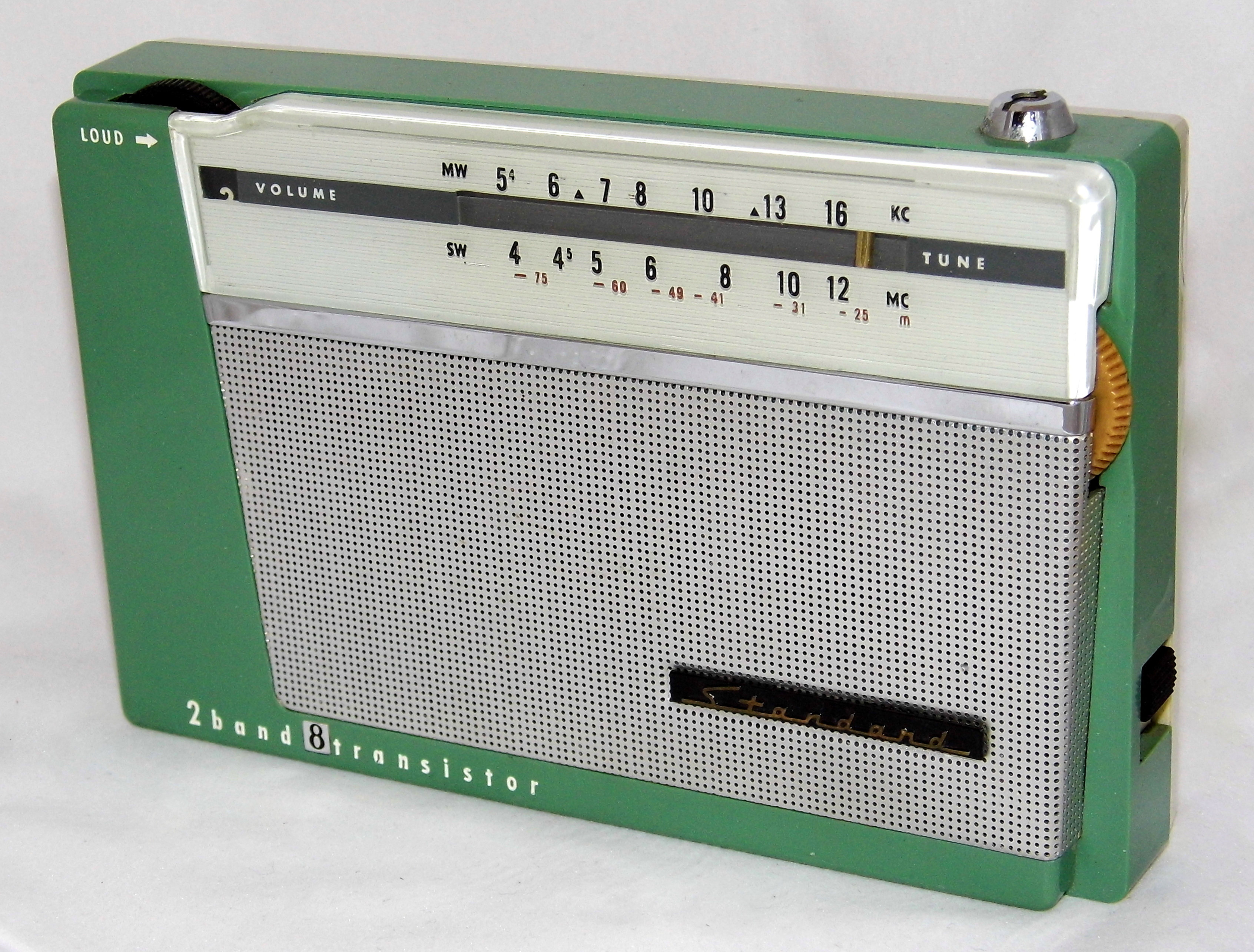 Vintage Standard 2-Band (AM/SW) 8-Transistor Radio, Model SR-H107, Made in Japan, Reverse Paint on the Dial Area, Circa 1960s